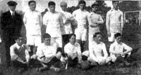 The C.A. San Isidro football team that played Nacional at the Tie Cup final.